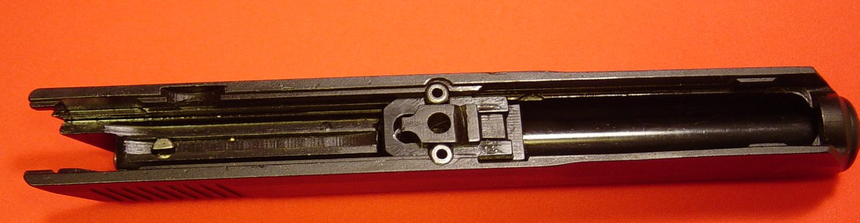 cz-52 slide and locking mech